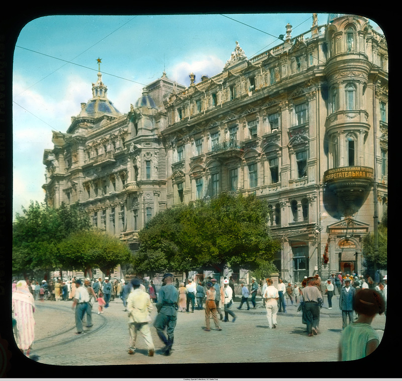 Glass lantern slide coloured by hand, which was taken while Branson De Cou was travelling with his lectures to Odessa, USSR, 1931. Lassal Street crossing Red Army Street. Libman House on foreground and Russov House on background.